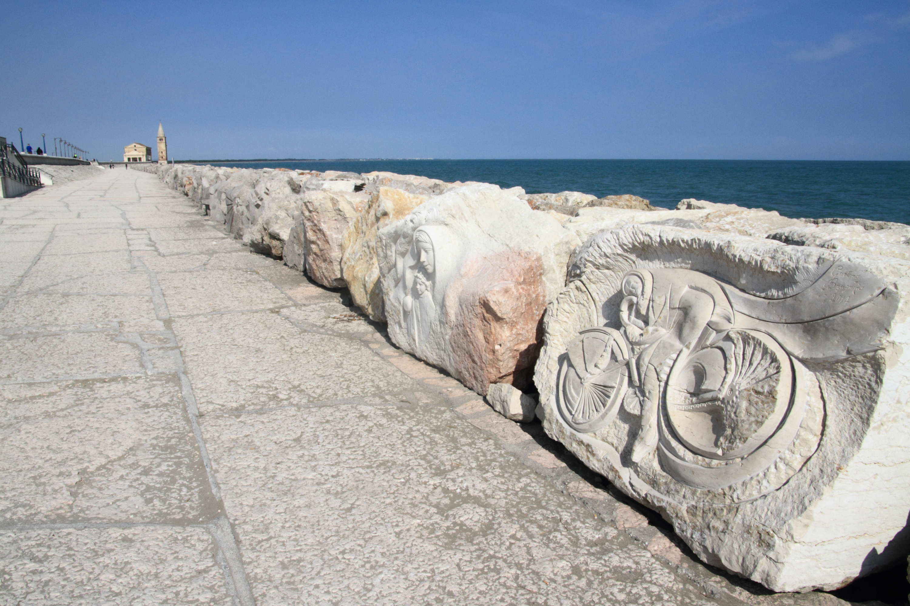 This is a photo of a monument which is part of cultural heritage of Italy.